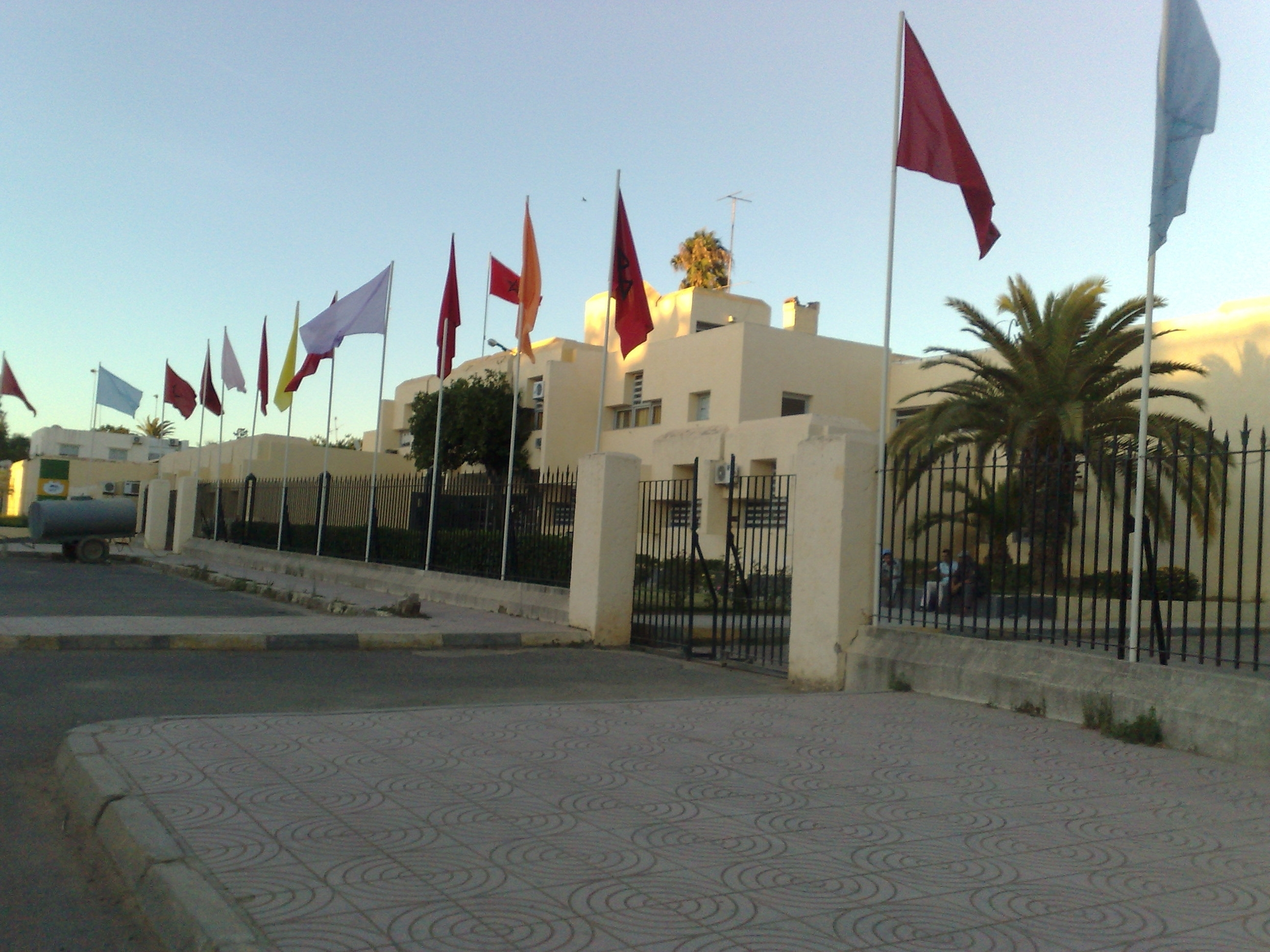 المكتب الجهوي للاستثمار الفلاحي بالقصر الكبير